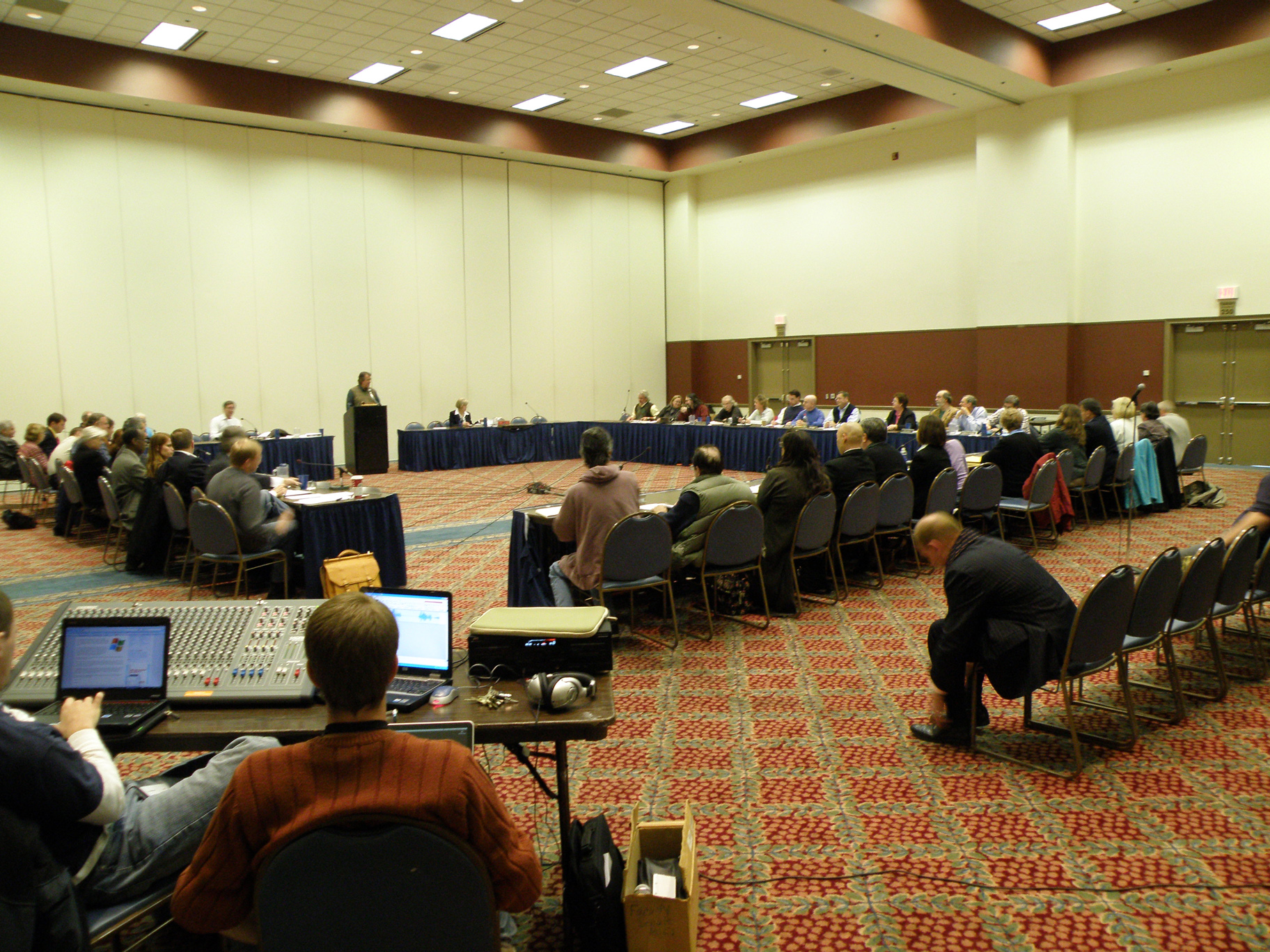 A photograph of a meeting of the Academic Senate of Georgia Southern University showing the room layout. The members of the senate are sitting in a square with a microphone at each seat. To the right of the image are two rows of chairs for guests or observers of the meeting. There is a single standing microphone which is used when a guest or observer provides information to the assembly or answers a question.